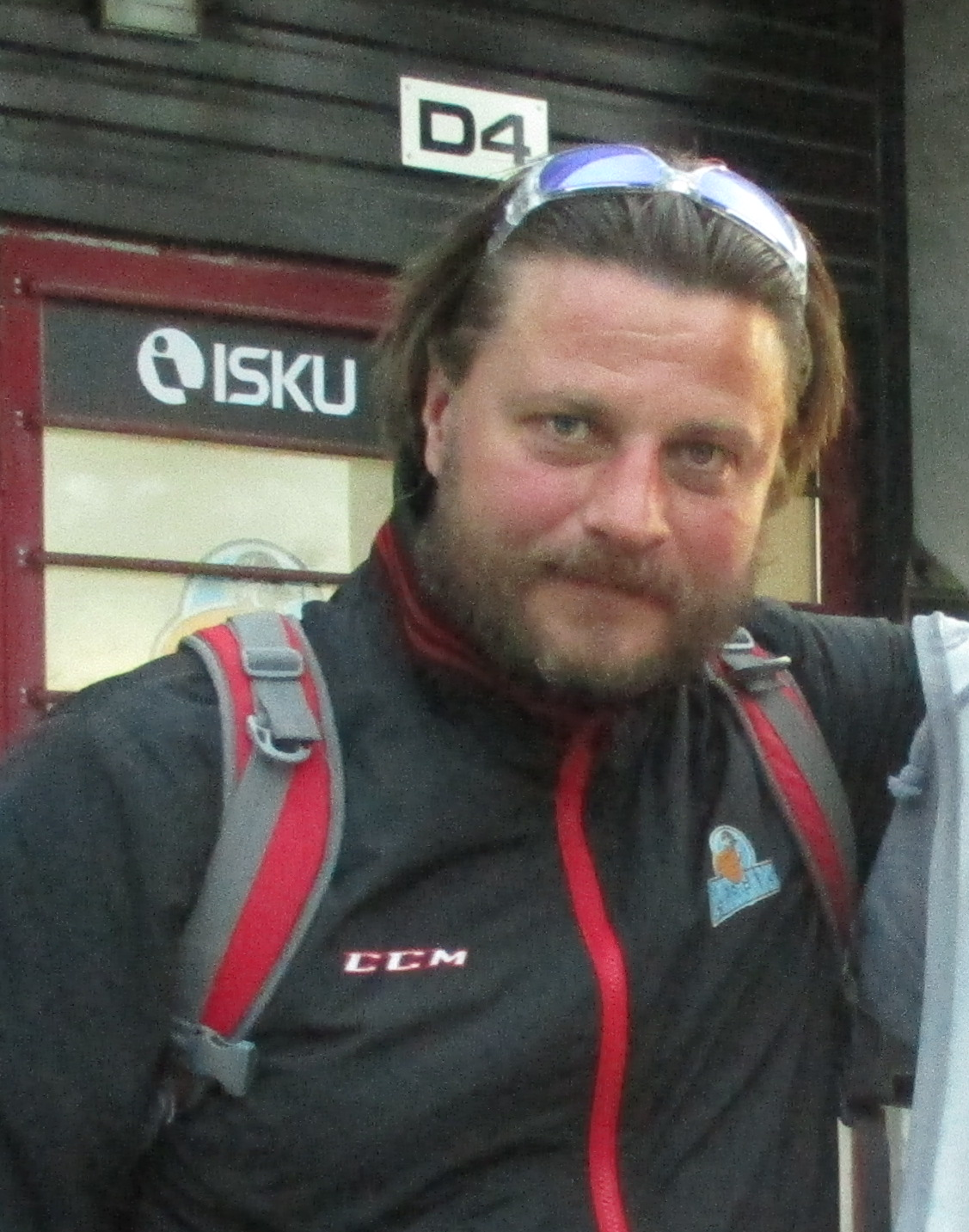 Pasi Nurminen after the practise game between Lahti Pelicans and Amur Khabarovsk at Isku Areena in Lahti, Finland on 5th of August 2016.